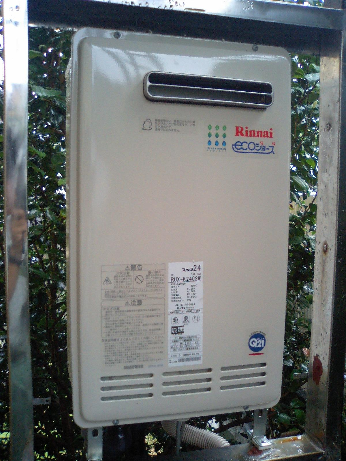 A domestic continuous water heater "RUX-K2402W" made by Rinnai in Japan.